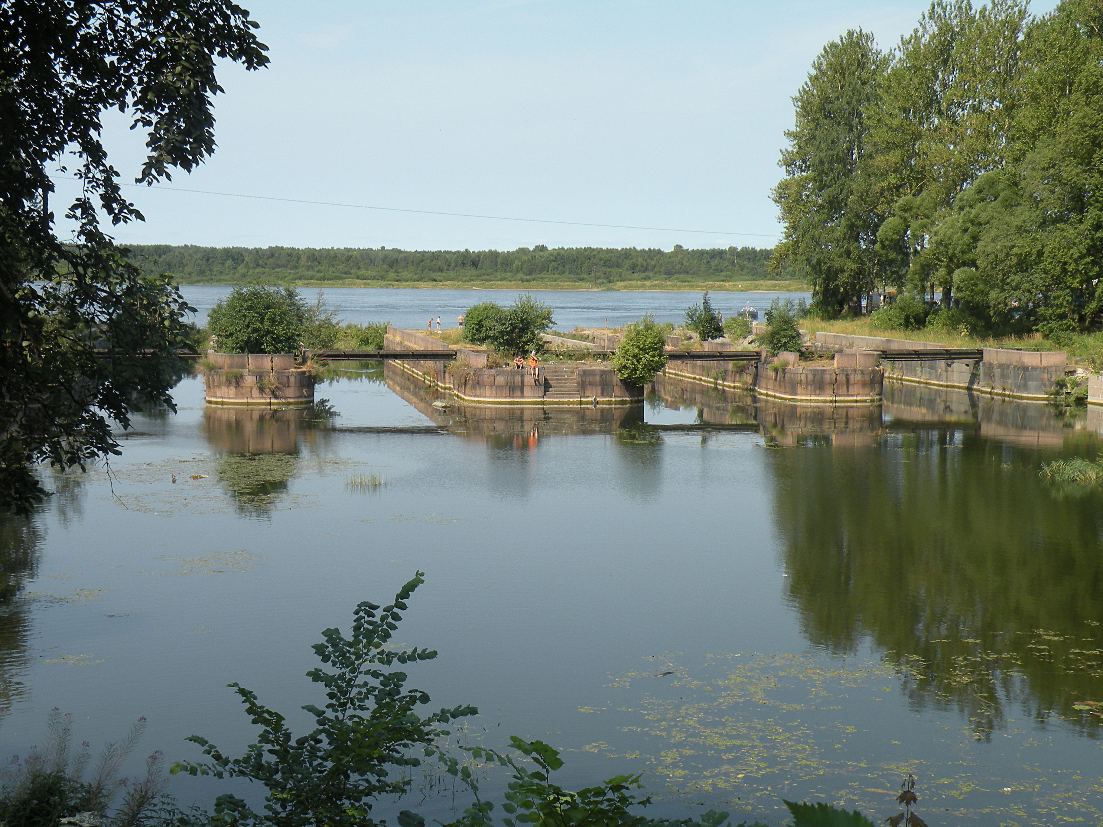 Locks of the old Ladoga Channel._ von Münnich